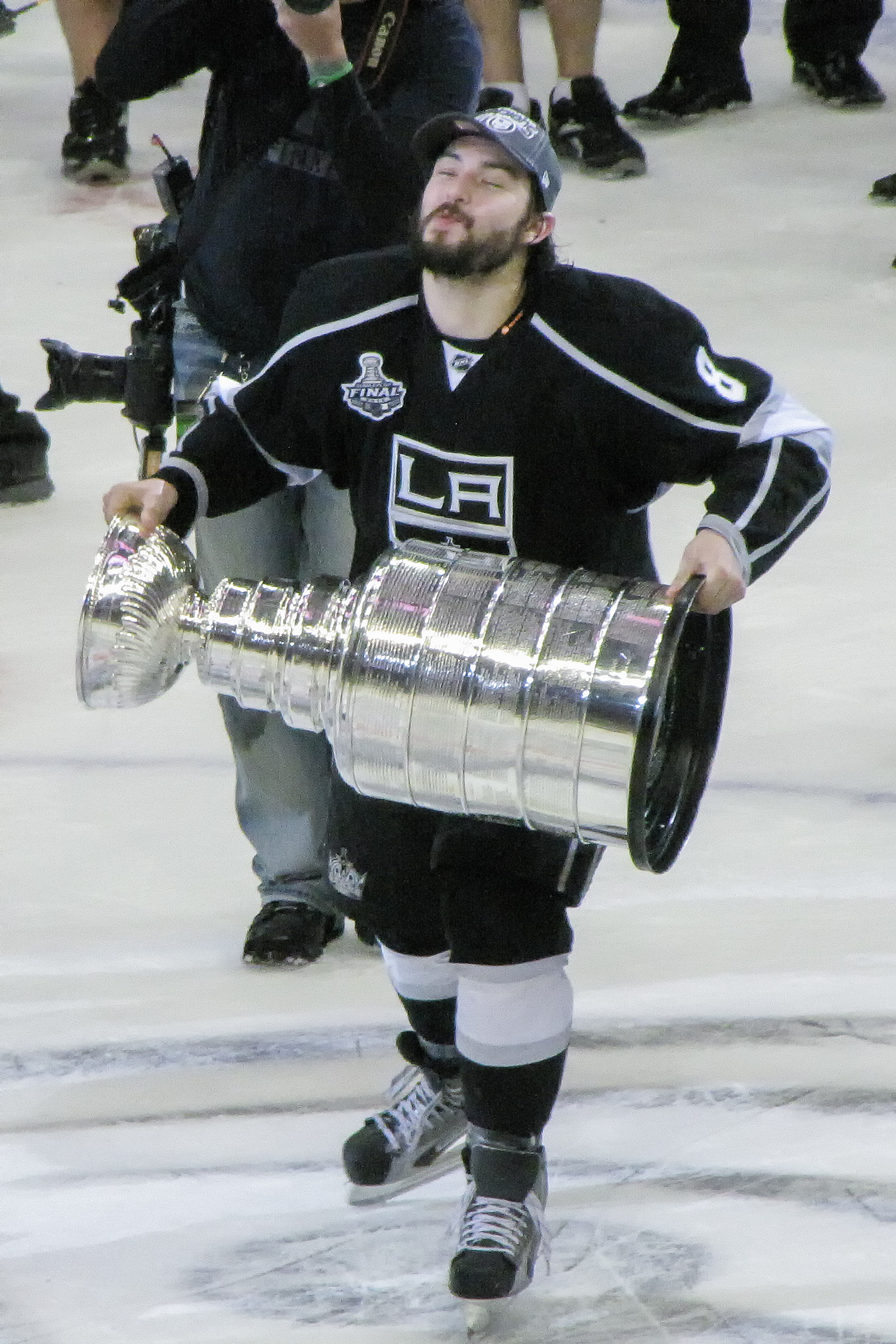 In April 2013 the Kings posted a nice video about receiving The Stanley Cup